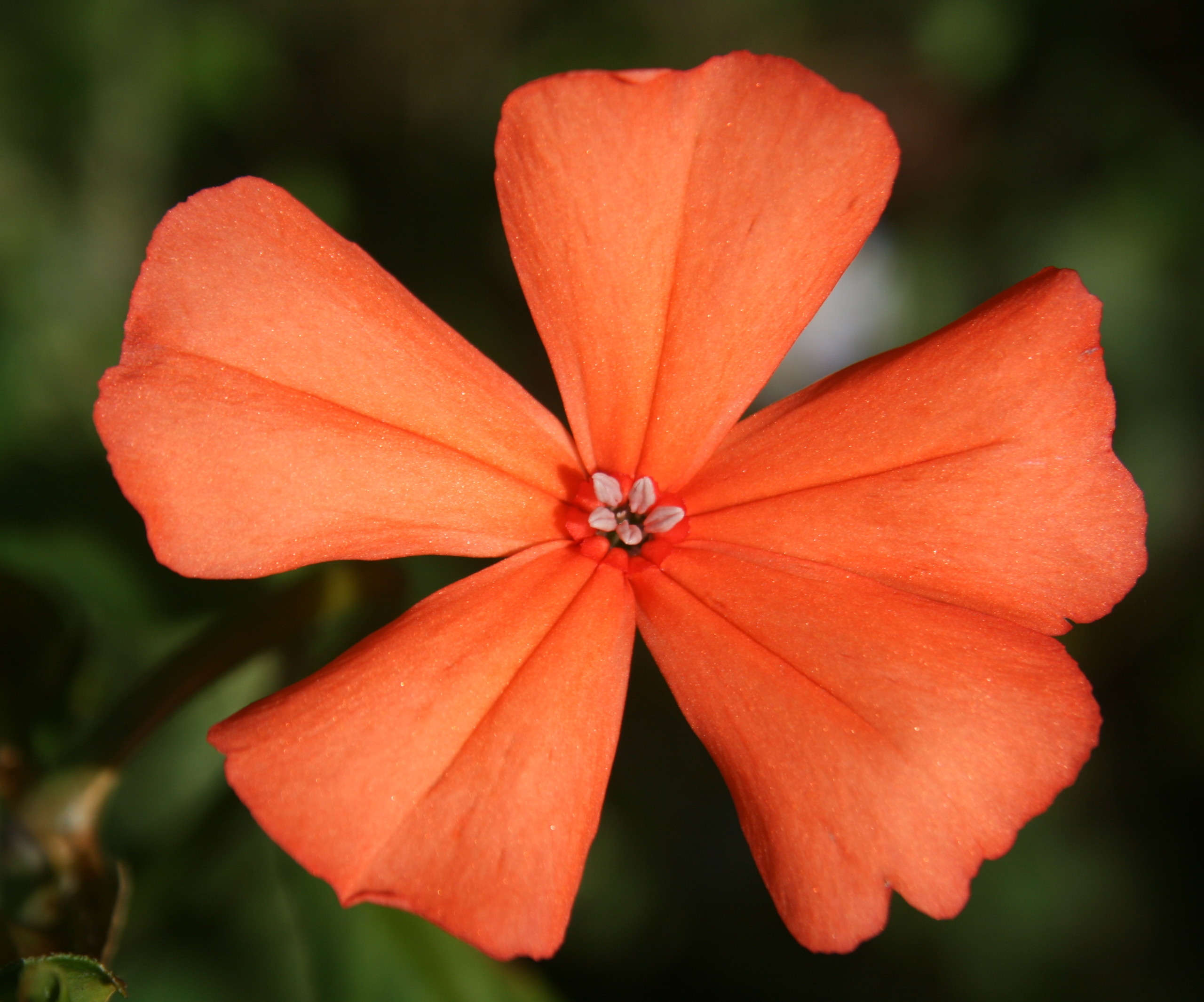 Lychnis miqueliana in Mount Odugongen in Kiso, Nagano (town)